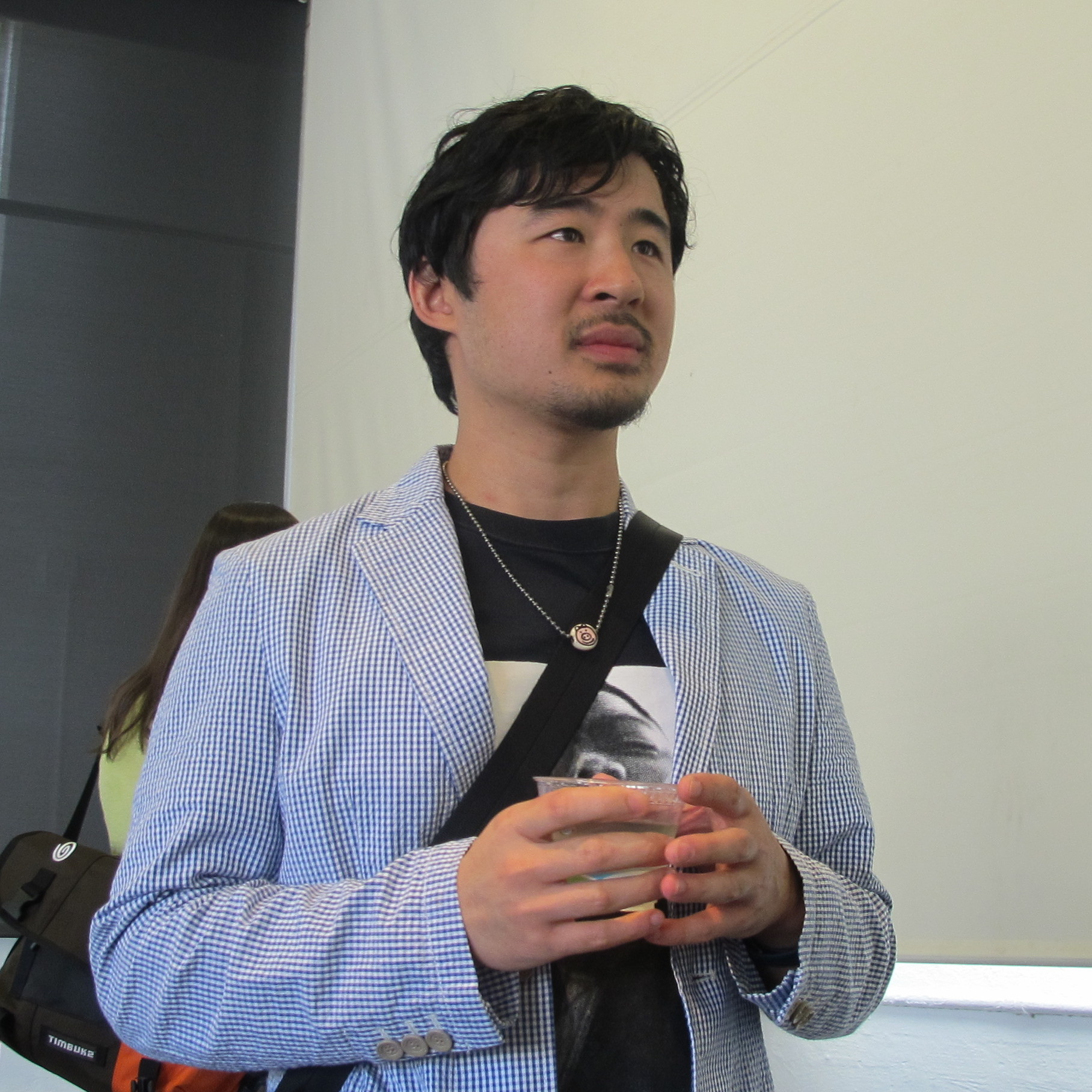 Francis Lam at Street Food conference